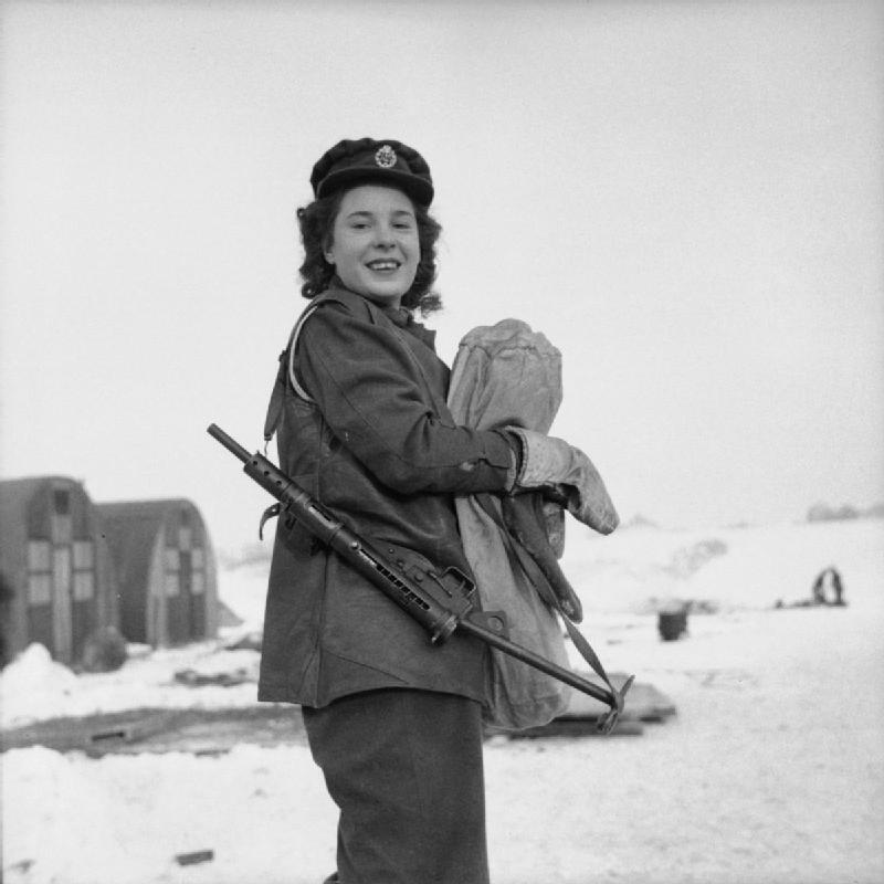 The British Army in the United Kingdom 1939-45 Private Kay Elms of the ATS, a member of 281st Battery, 137th (Mixed) Heavy Anti-Aircraft Regiment, carries a Sten gun at a camp in Belgium, 26 January 1944.